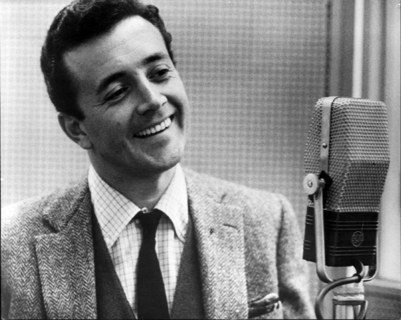 Publicity photo of singer Vic Damone.